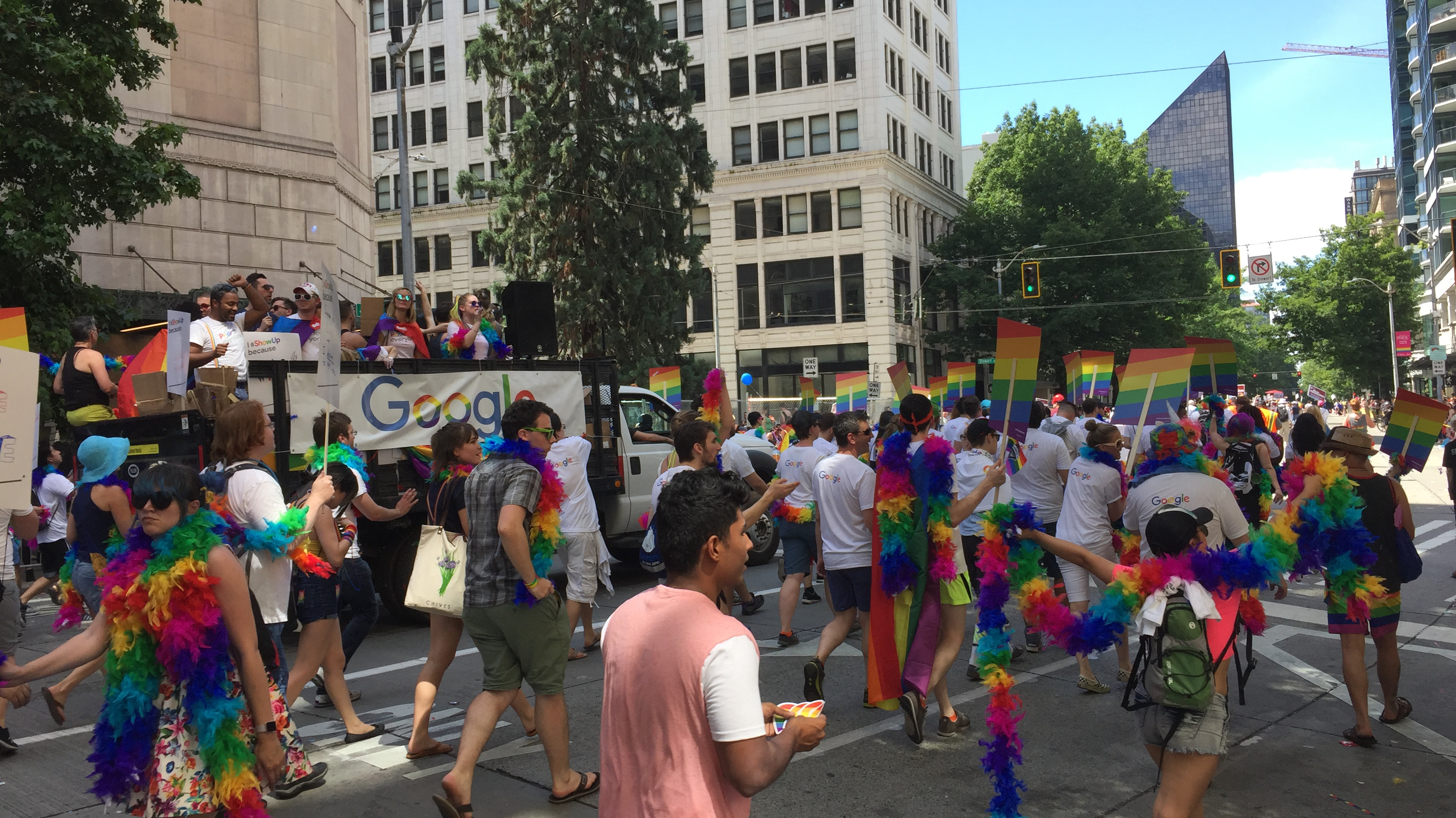 Google's float at 2017's Seattle Pride Parade. 中文（香港）: Google於2017年西雅圖LGBTQ驕傲遊行 (Pride Parade) 的遊行隊伍。